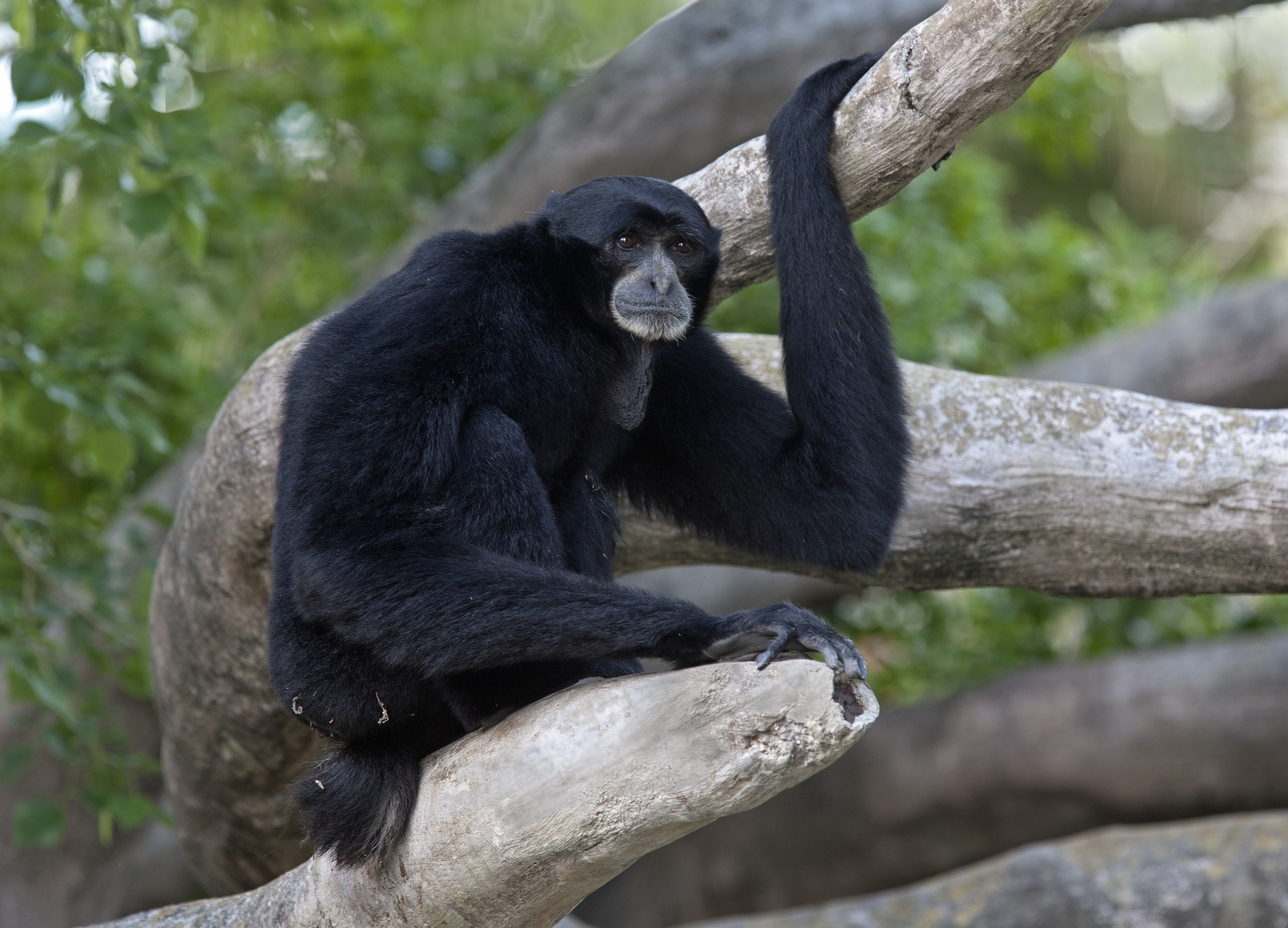 Siamang (Symphalangus syndactylus)